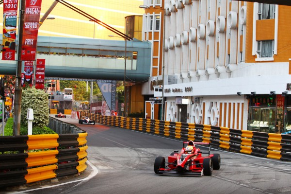 Formula 3 car managing "San Francisco Hill" turn at Circuito da Guia, Macau, China